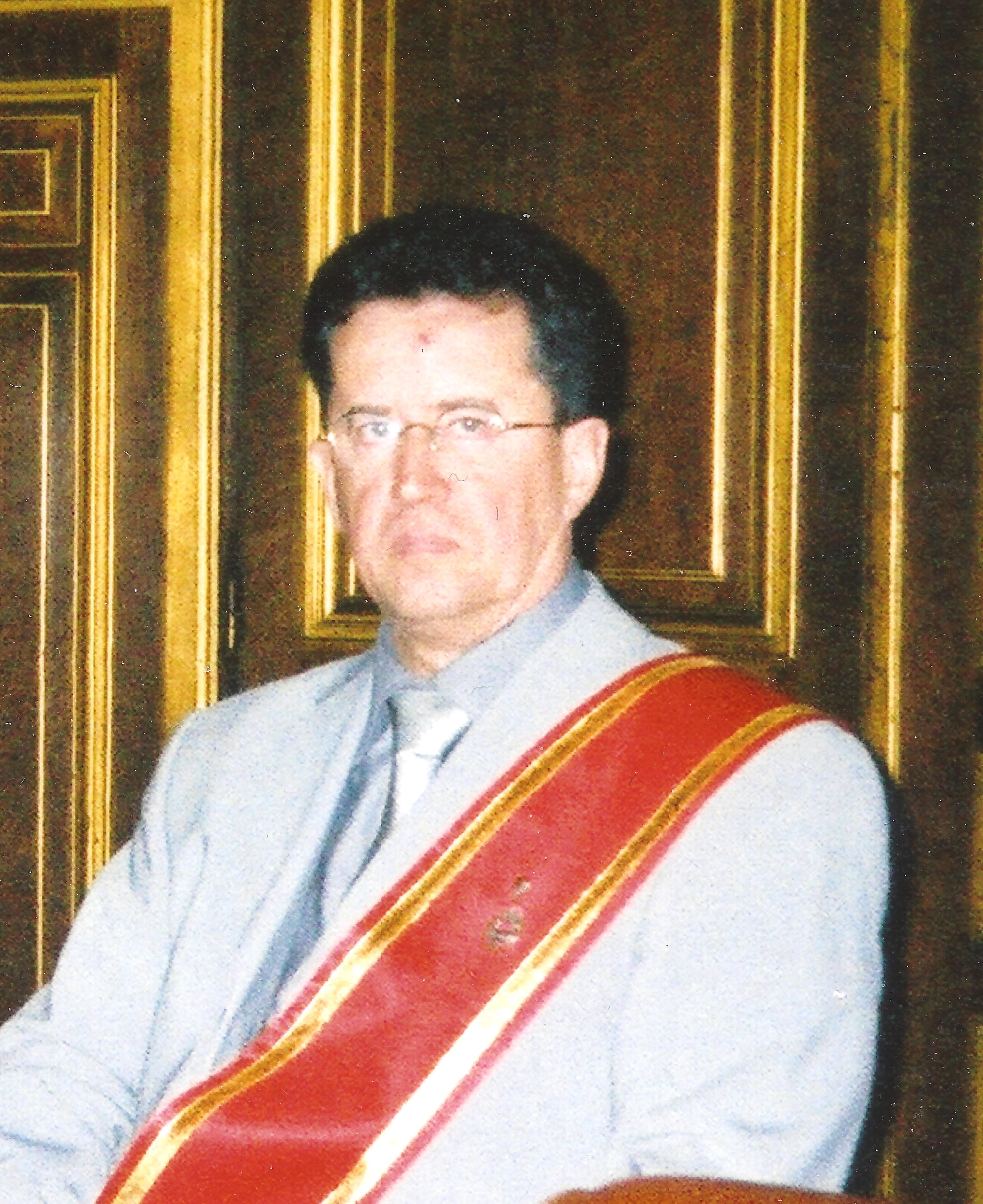 Professor Rémy Dor, the Sorbonna university, France. 07.10.2003. Photo by T.Chorotegin.